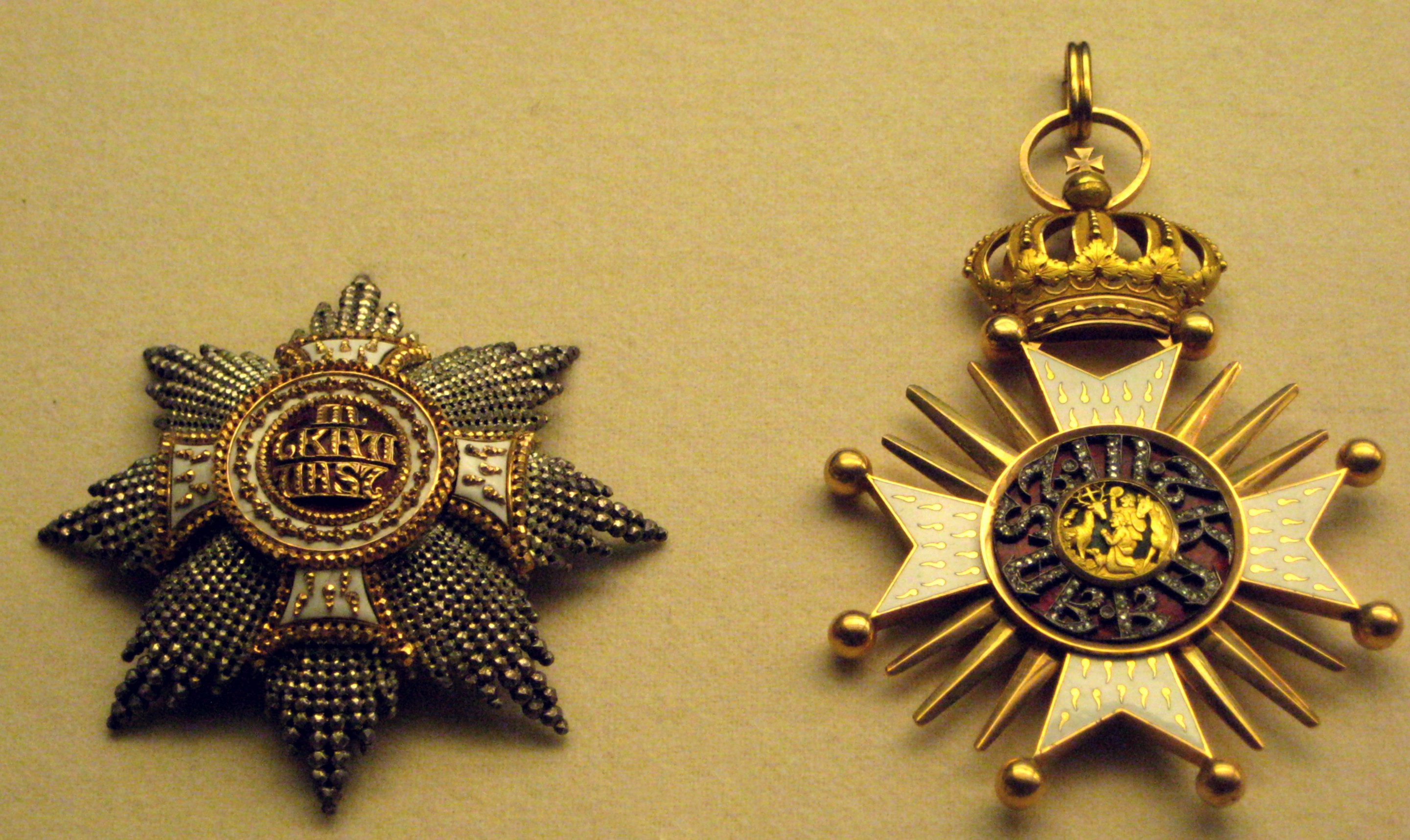 The star and the badge of the order of S. Hubert. Bavaria, early 19 c.